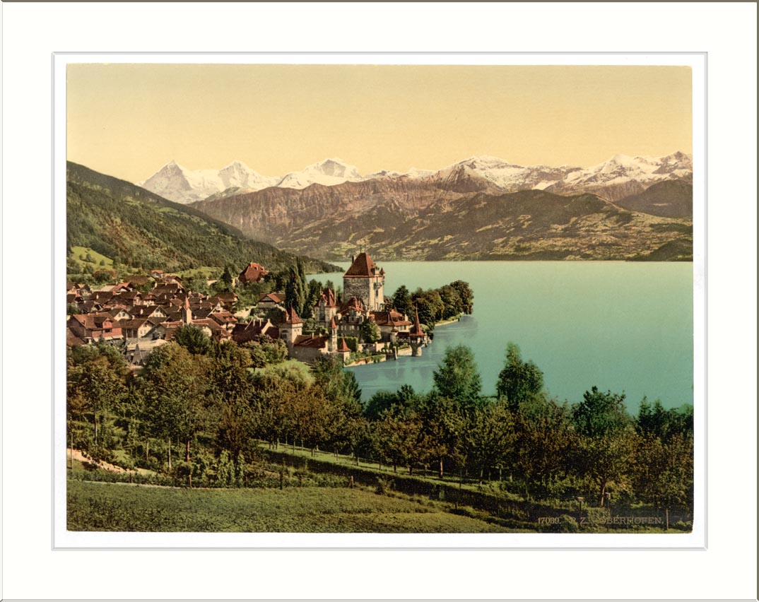 between ca. 1890 and ca. 1900. Print no. 17039. Views of Switzerland 1 photomechanical print : photochrom color. Library of Congress Prints and Photographs Division Washington D.C. 20540 USA Oberhofen village Bernese Oberland Switzerland between ca. 1890 and ca. 1900. Print no. 17039. Views of Switzerland 1 photomechanical print : photochrom color. Library of Congress Prints and Photographs Division Washington D.C. 20540 USA